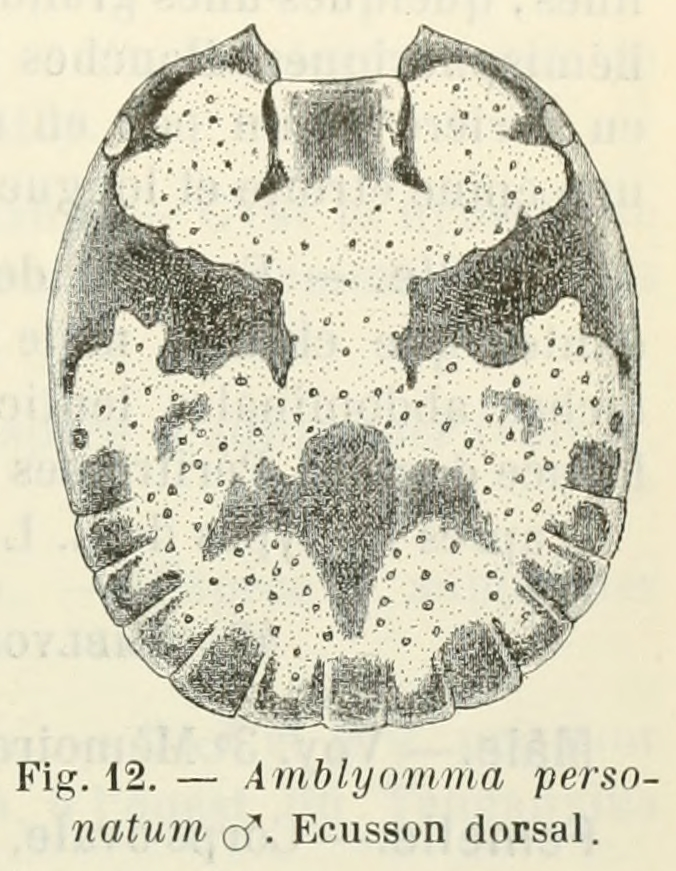 Amblyomma personatum, male from original description